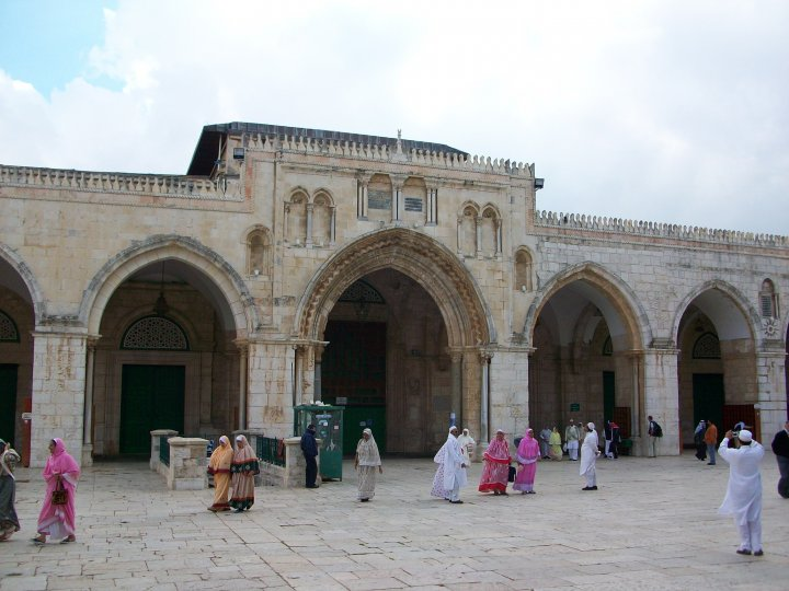 Women in front of the Al-Aqsa Mosque, Jerusalem